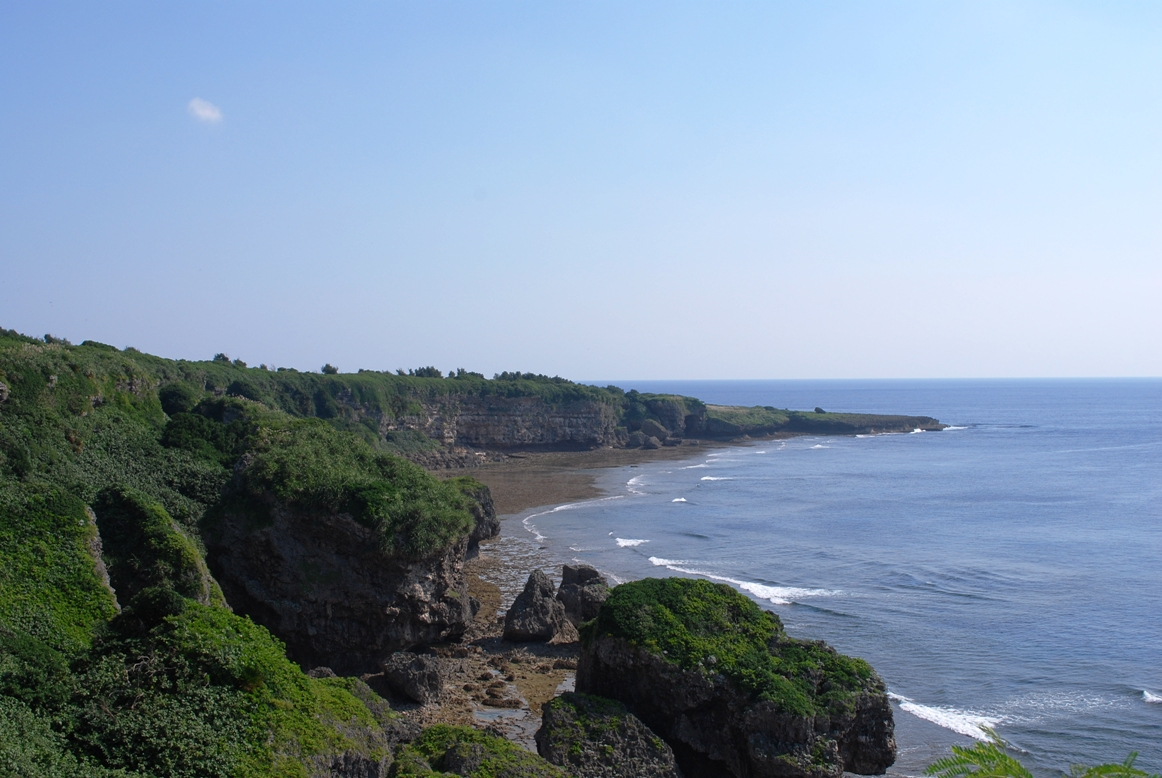 View of Arazaki from Cape Kyan